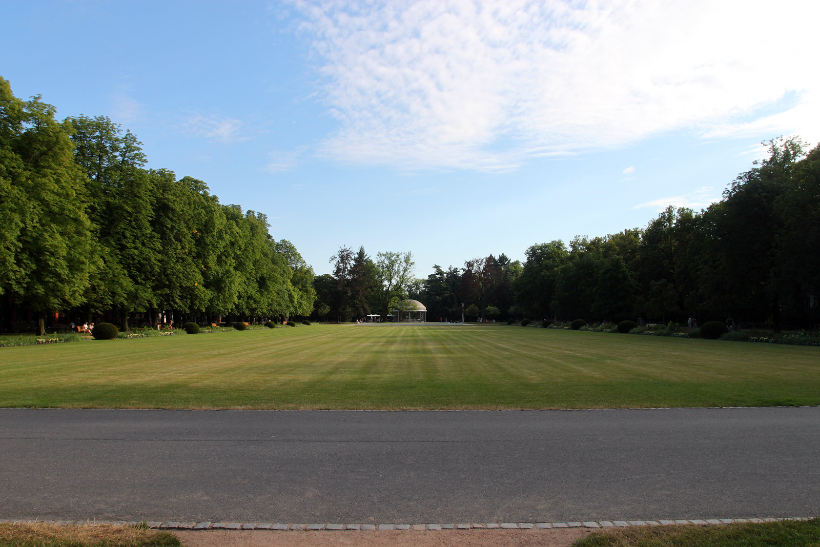 Podebrady central park